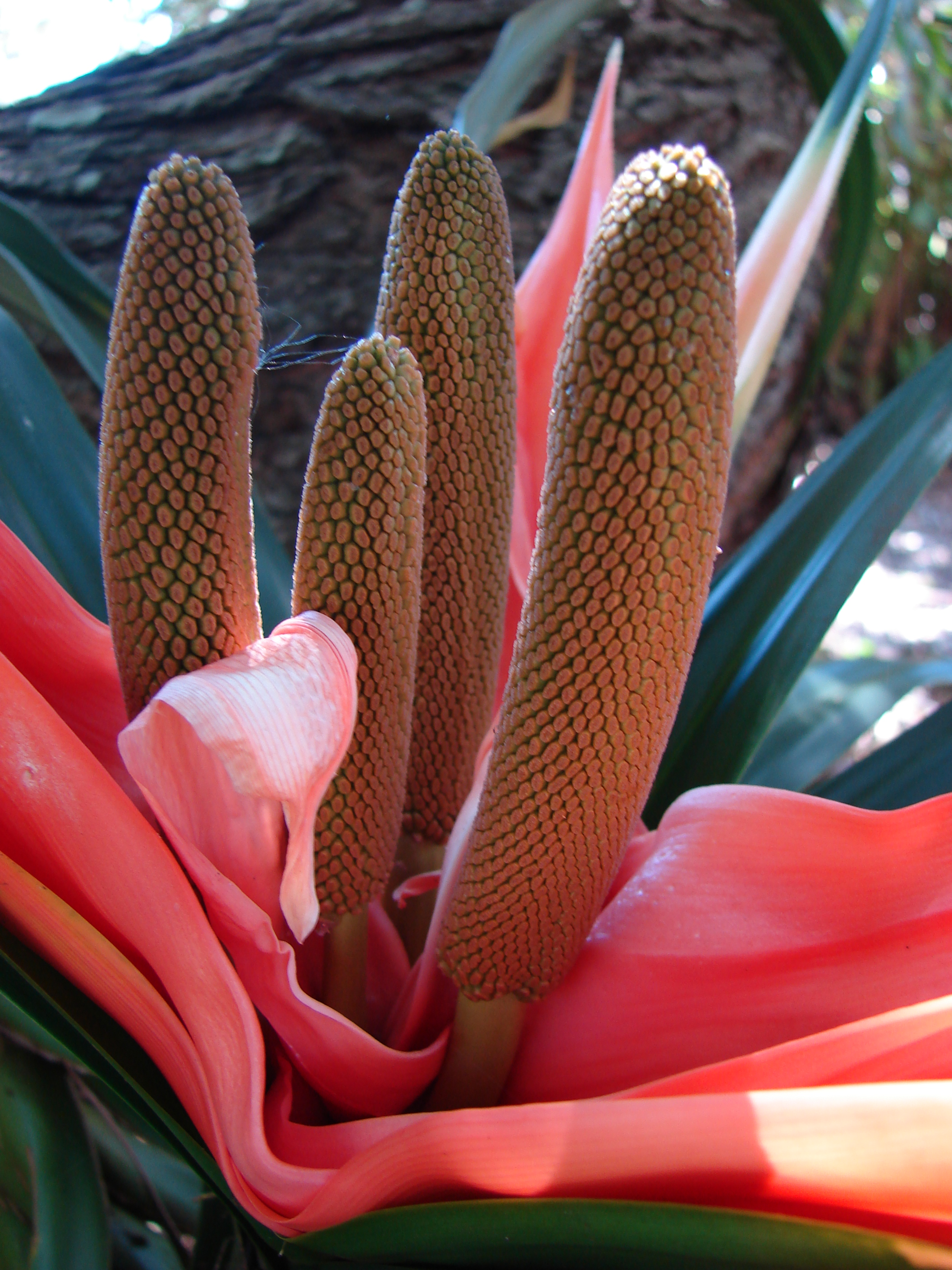 Freycinetia arborea (flower). Location: Maui, Hanamu Rd Makawao